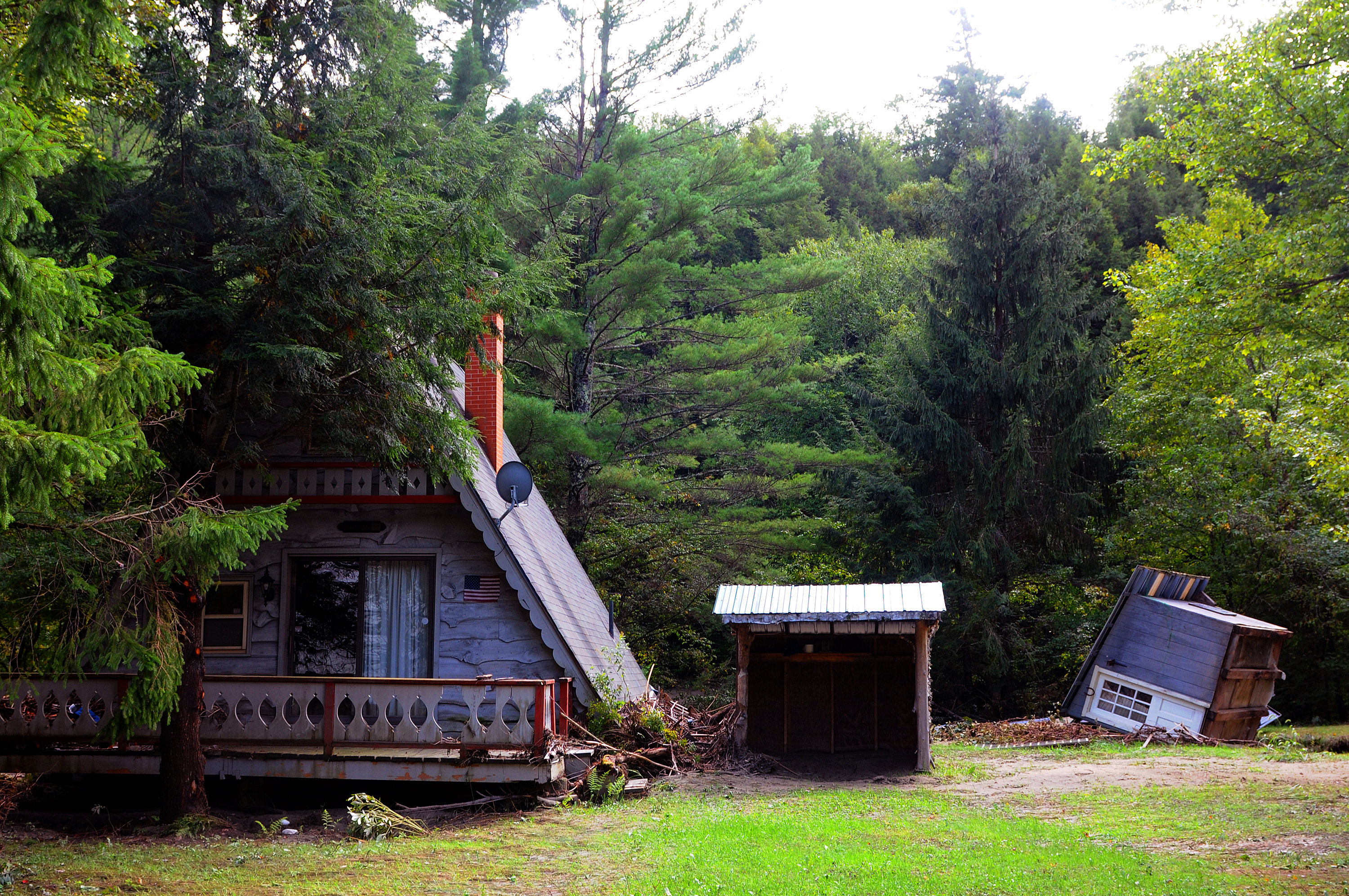 A cabin property shows damage sustained during Hurricane Irene in Pittsfield, Vt., Sept. 6, 2011.